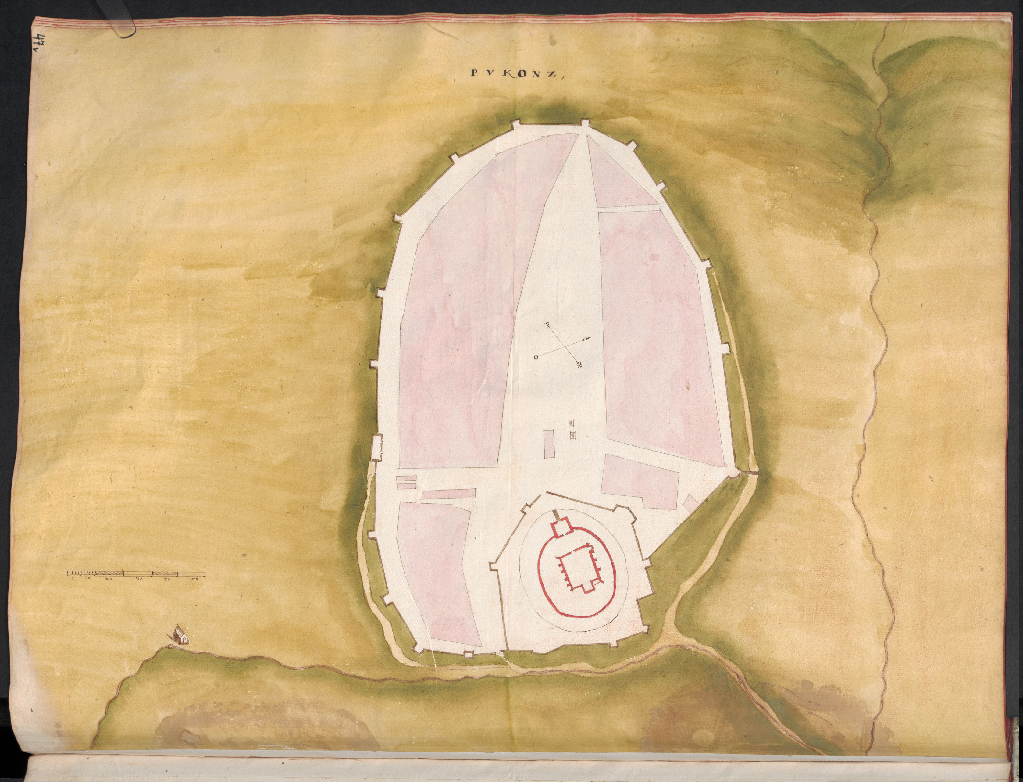 Drawing of the wooden fortification system of town Pukanec by Natale Angielini, 1572 - 1573